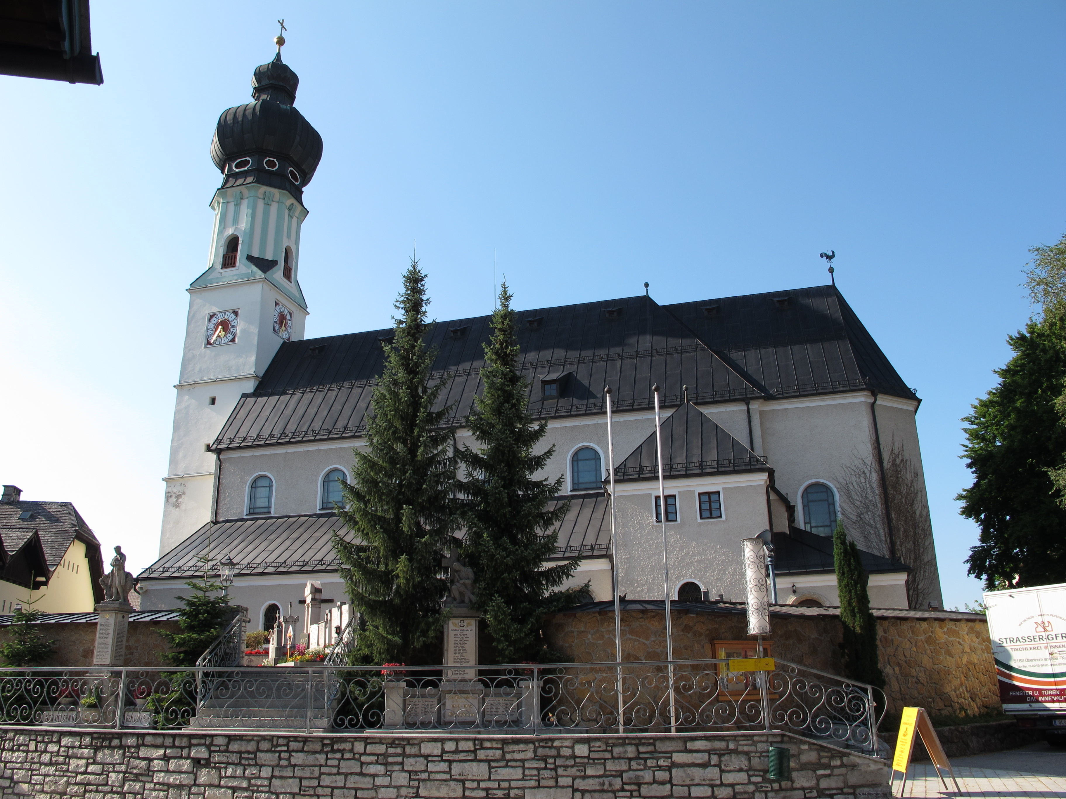 Pfarrkirche Obertrum